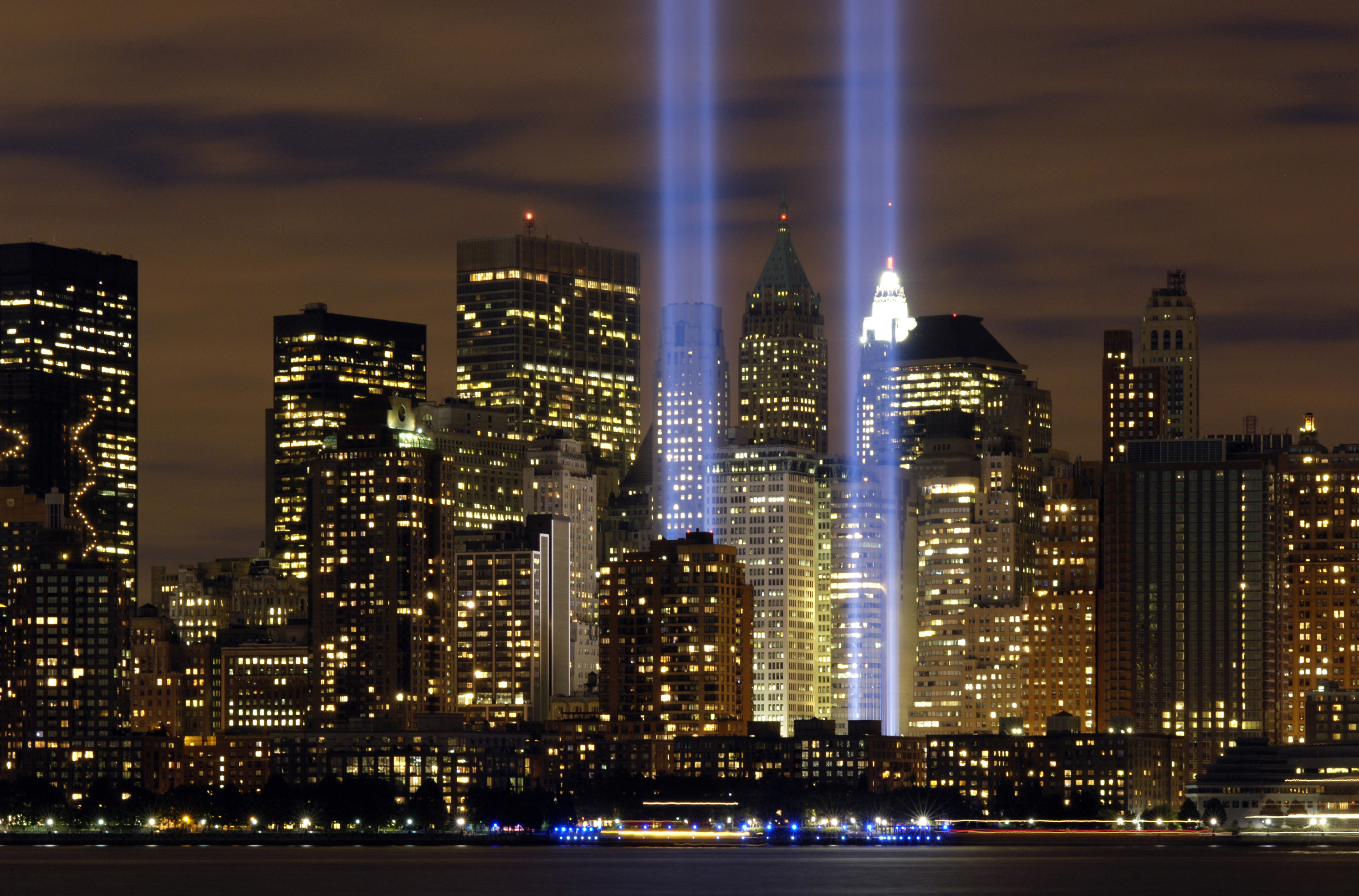 The "Tribute in Light" memorial is in remembrance of the events of Sept. 11, 2001. The two towers of light are composed of two banks of high wattage spotlights that point straight up from a lot next to Ground Zero. This photo was taken from Liberty State Park, N.J., Sept. 11, the five-year anniversary of 9/11. (U.S. Air Force photo/Denise Gould)